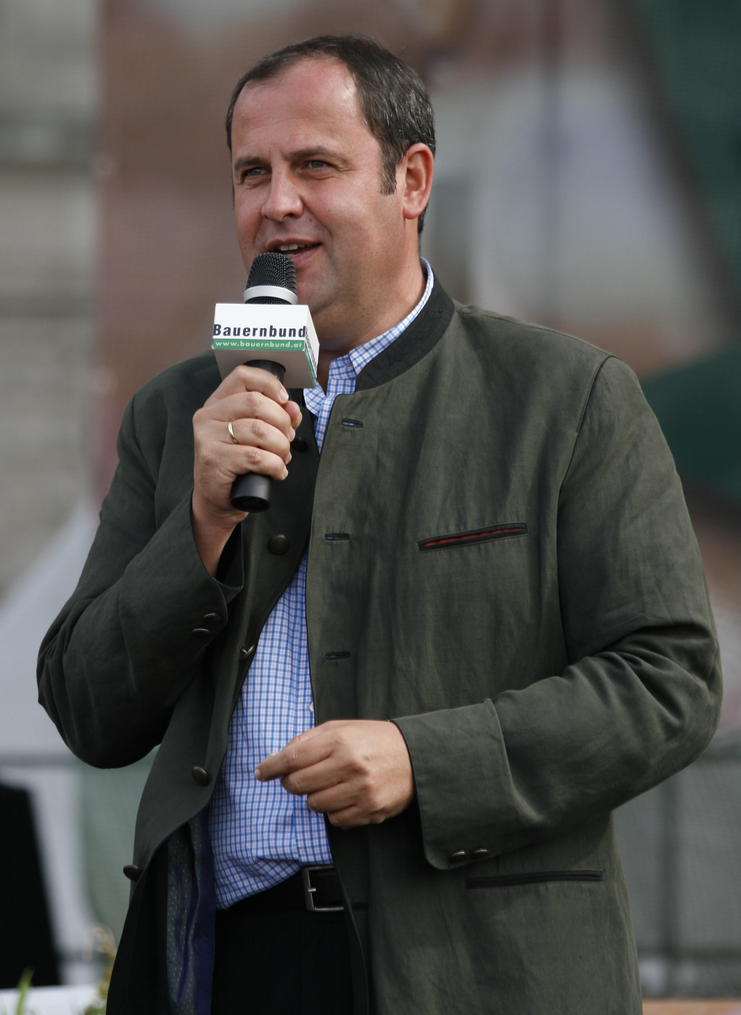 Austrian politician Josef Pröll at the annual harvest festival of the ÖVP-Bauernbund at the Heldenplatz in Vienna)